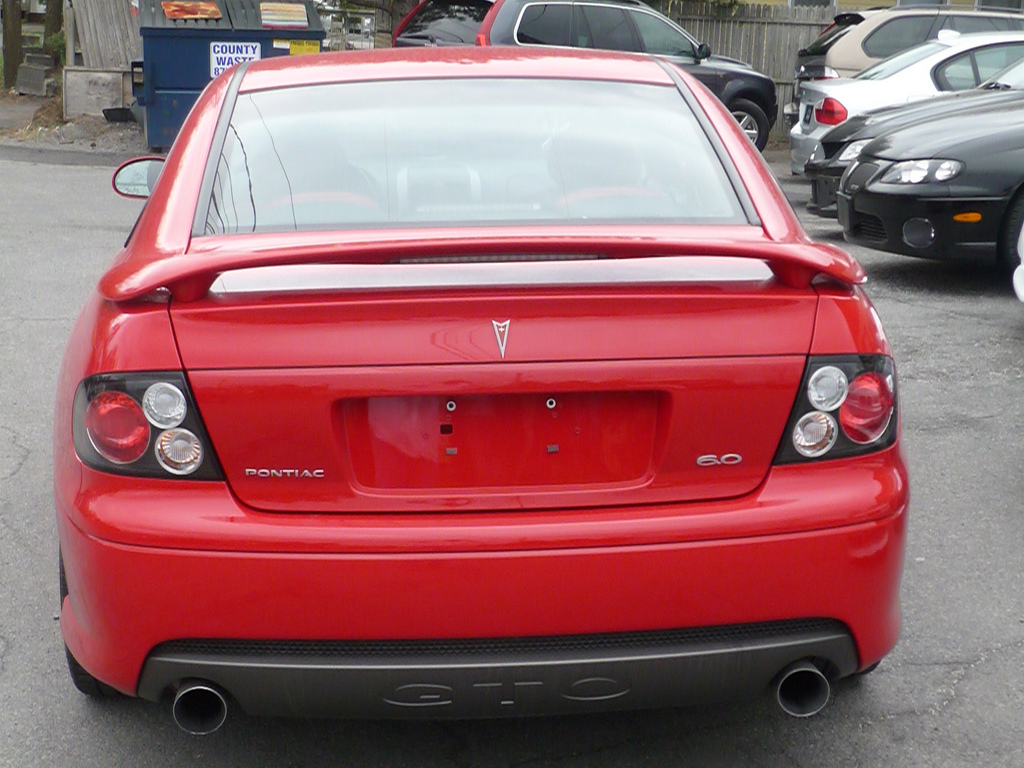 2006 Pontiac GTO coupe, photographed in the United States.